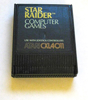 A ROM cartridge of the 1979 Atari game Star Raiders for the Atari 8-bit line of computers. Model CXL4011. This particular example has a typo on the label-- the title reads "STAR RAIDER".